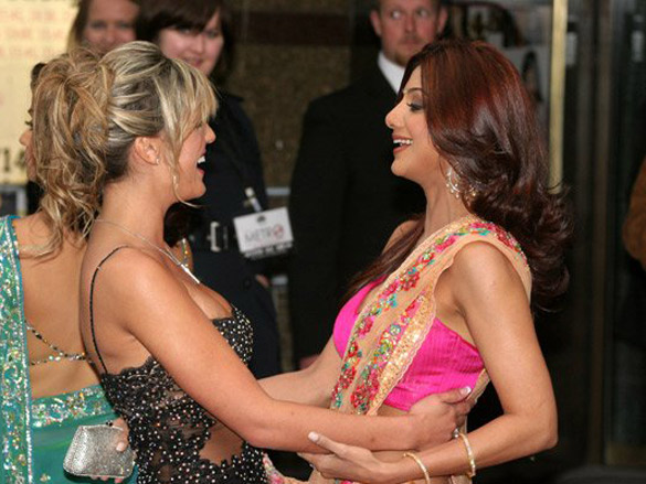 Shilpa Shetty, Daniel Lloyd at Life In A Metro Premiere In London's Empire Leicester Square